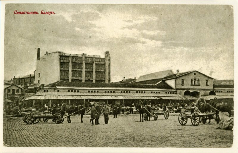 The marketplace of Sevastopol (now - the area in Artillery Bay) in the early 20th century. In the foreground the building of the Bazaar (not preserved). Behind the apartment house Annenkov (now it`s building of GUM).